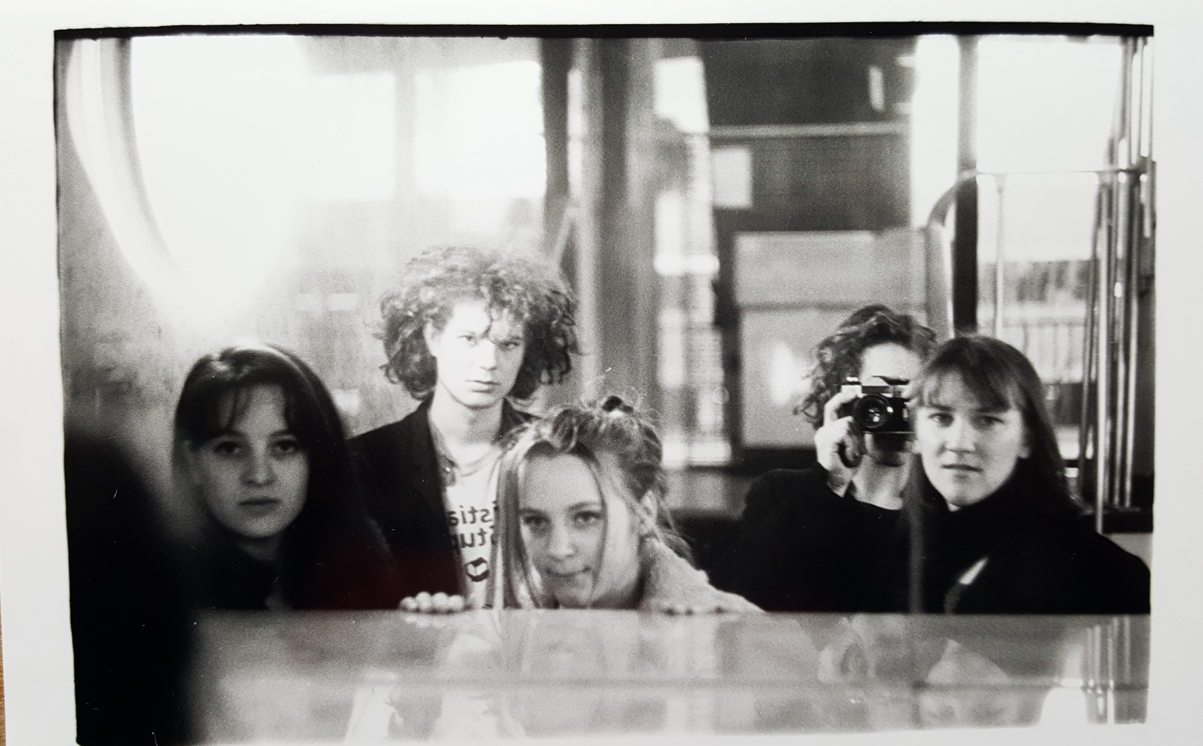 Movietone circa 1994/5, L-R Rachel Brook, Matt Elliott, Kate Wright, Matt Jones, Ros Walford. taken by Matt Jones in a mirror, Bristol 1994 ,printed by Kate wright